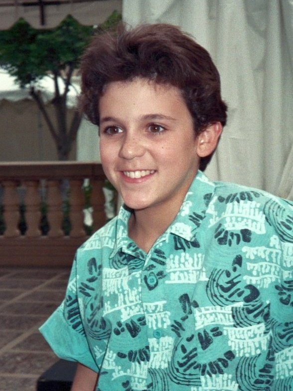 Fred Savage at rehearsal for the 41st Emmy Awards